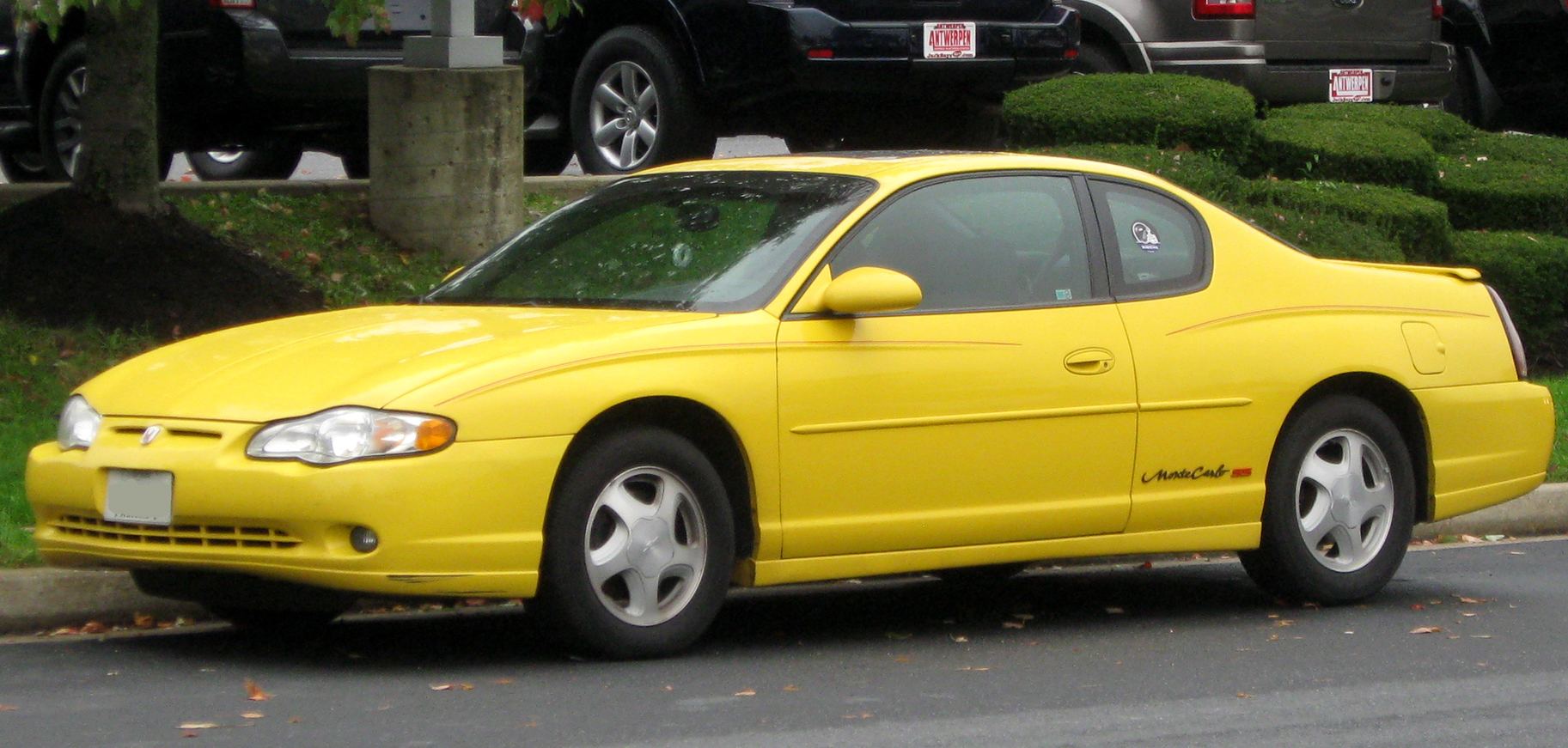 2000-2005 Chevrolet Monte Carlo photographed in Clarksville, Maryland, USA.